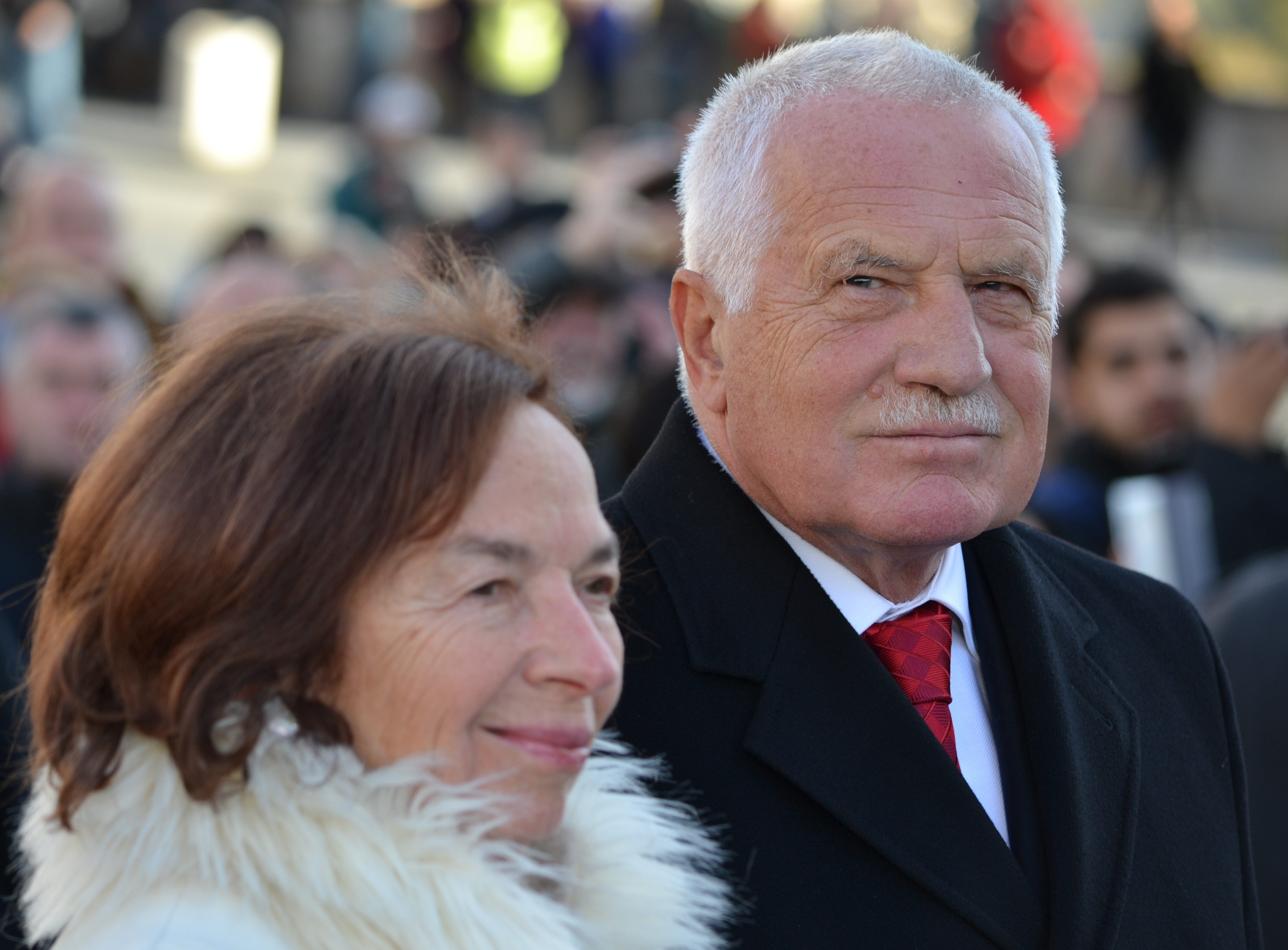 Václav Klaus, President of the Czech Rep. and First Lady Livia Klausová